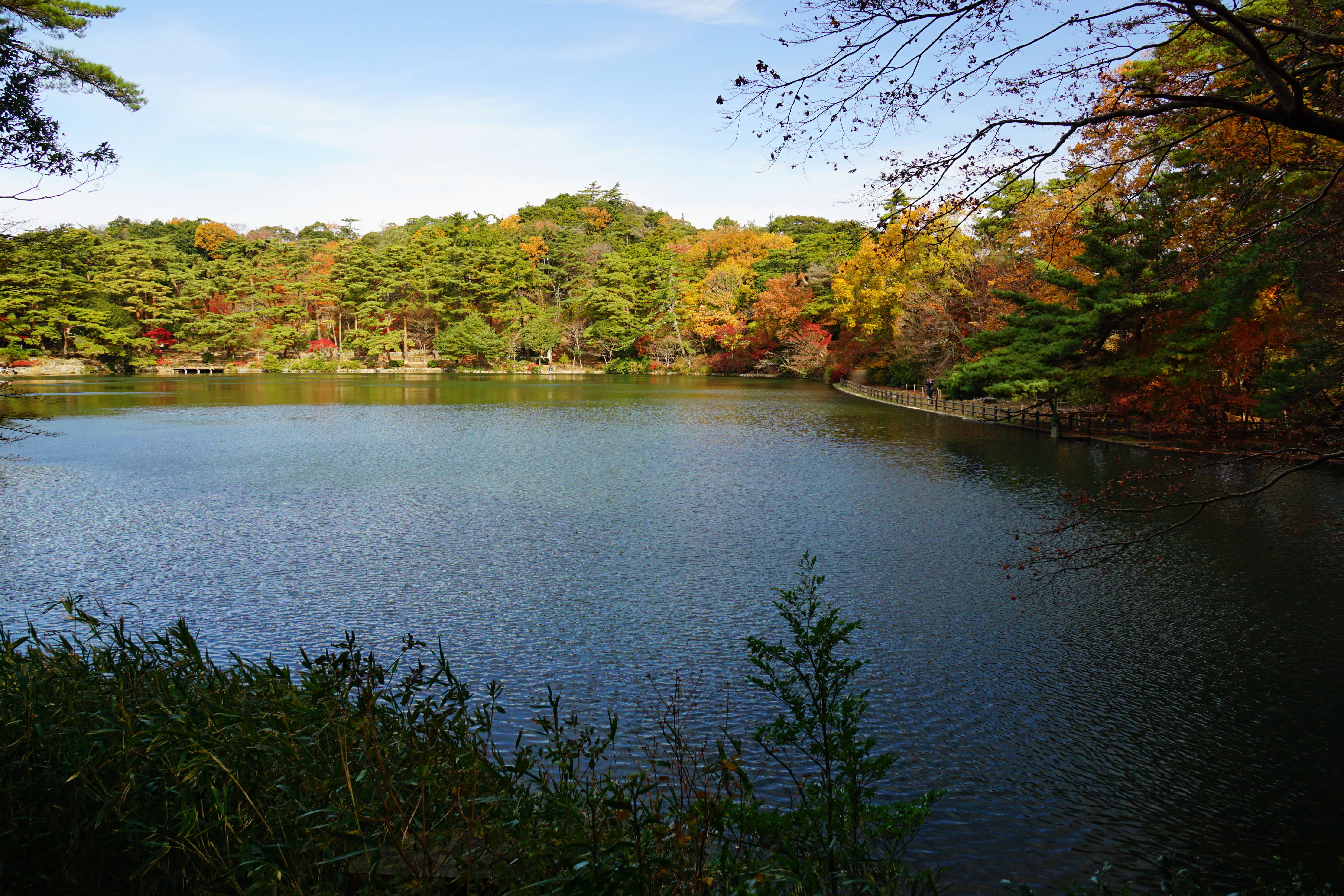 Futatabi Park in Kobe, Hyogo prefecture, Japan